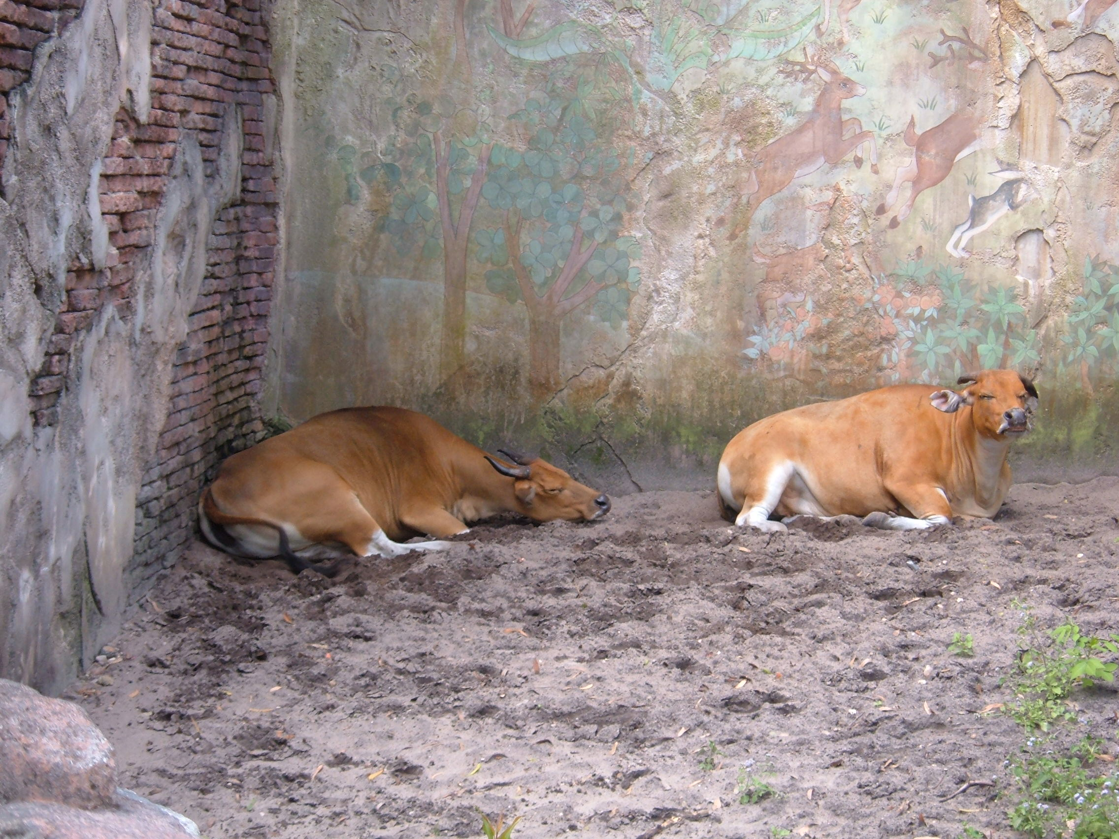 Female bantengs (Bos javanicus) along the Maharajah Jungle Trek in the Asia section of Disney's Animal Kingdom at the Walt Disney World Resort near Orlando, Florida.